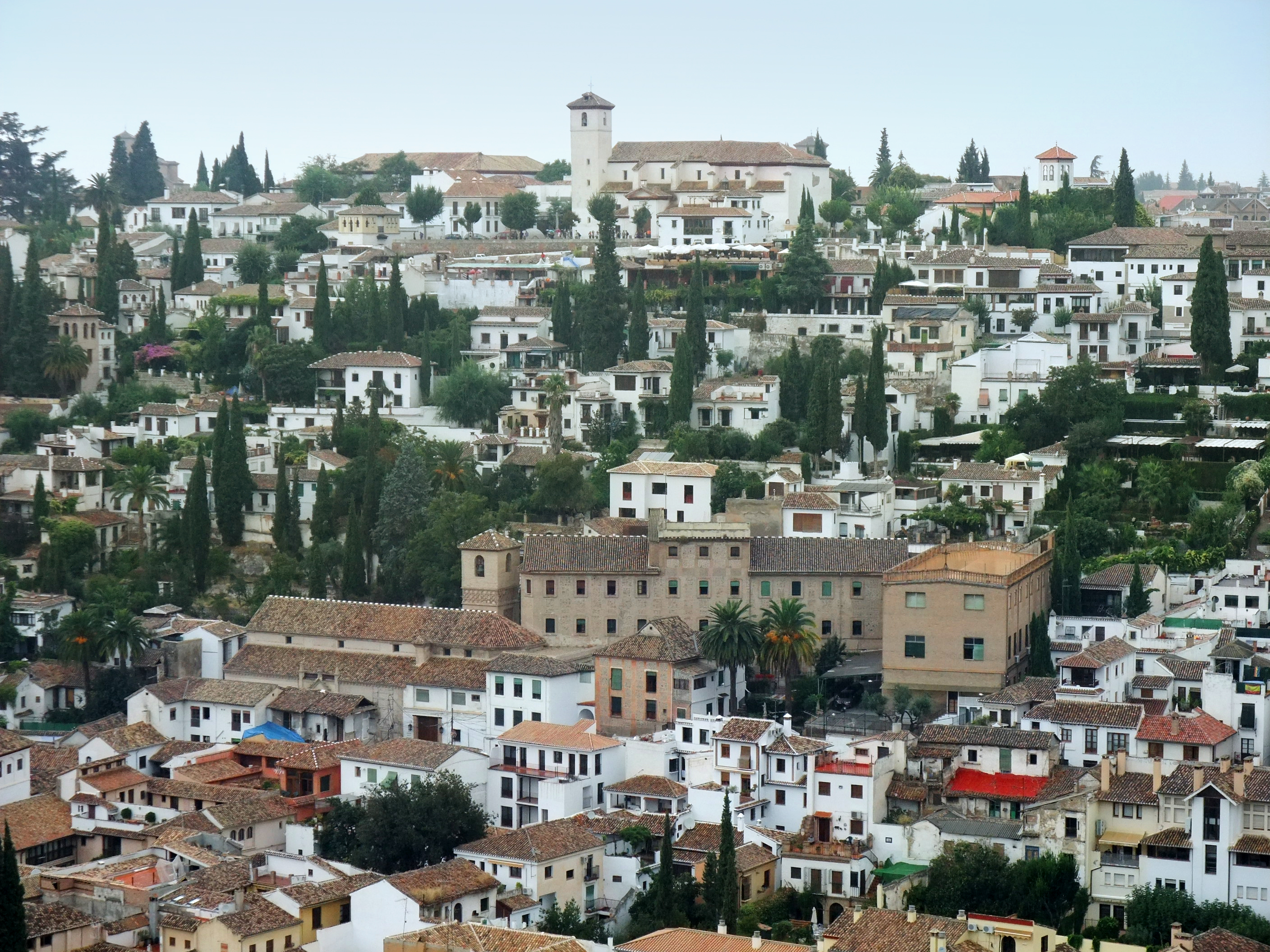 View from Generalife to Granada, Spain